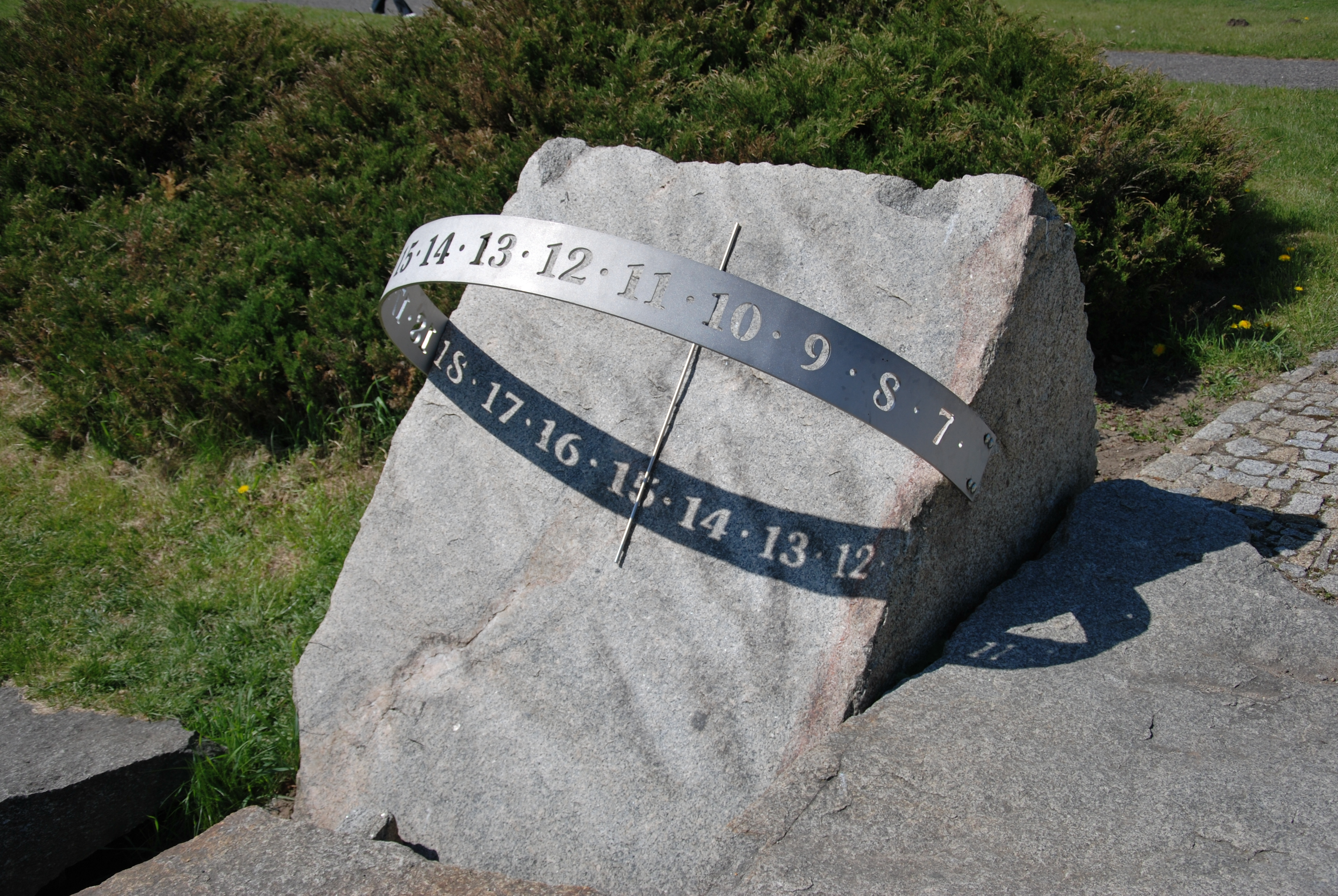 Equatorial sundial, Botanical Garden in Łódź